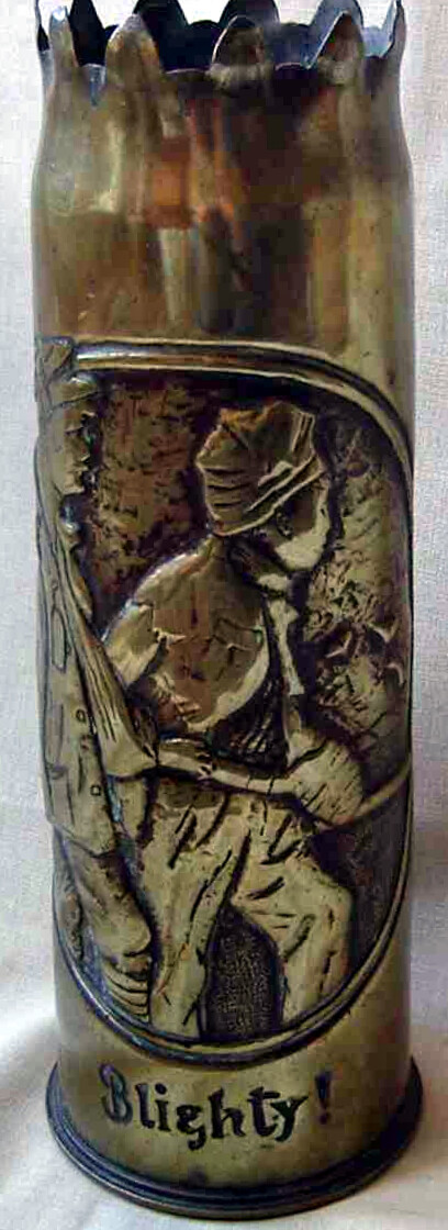 UK Blighty Shellcase